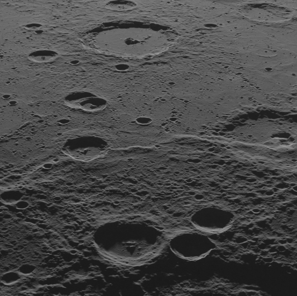 Oblique view of Victoria Rupes and Sor Juana crater (background) on Mercury. MESSENGER Wide Angle Camera image. Approximate north is to left. Emission Angle: 58.5 Incidence Angle: 83.5 Latitude: 51.2 Longitude: 325.9 Phase Angle: 142.1